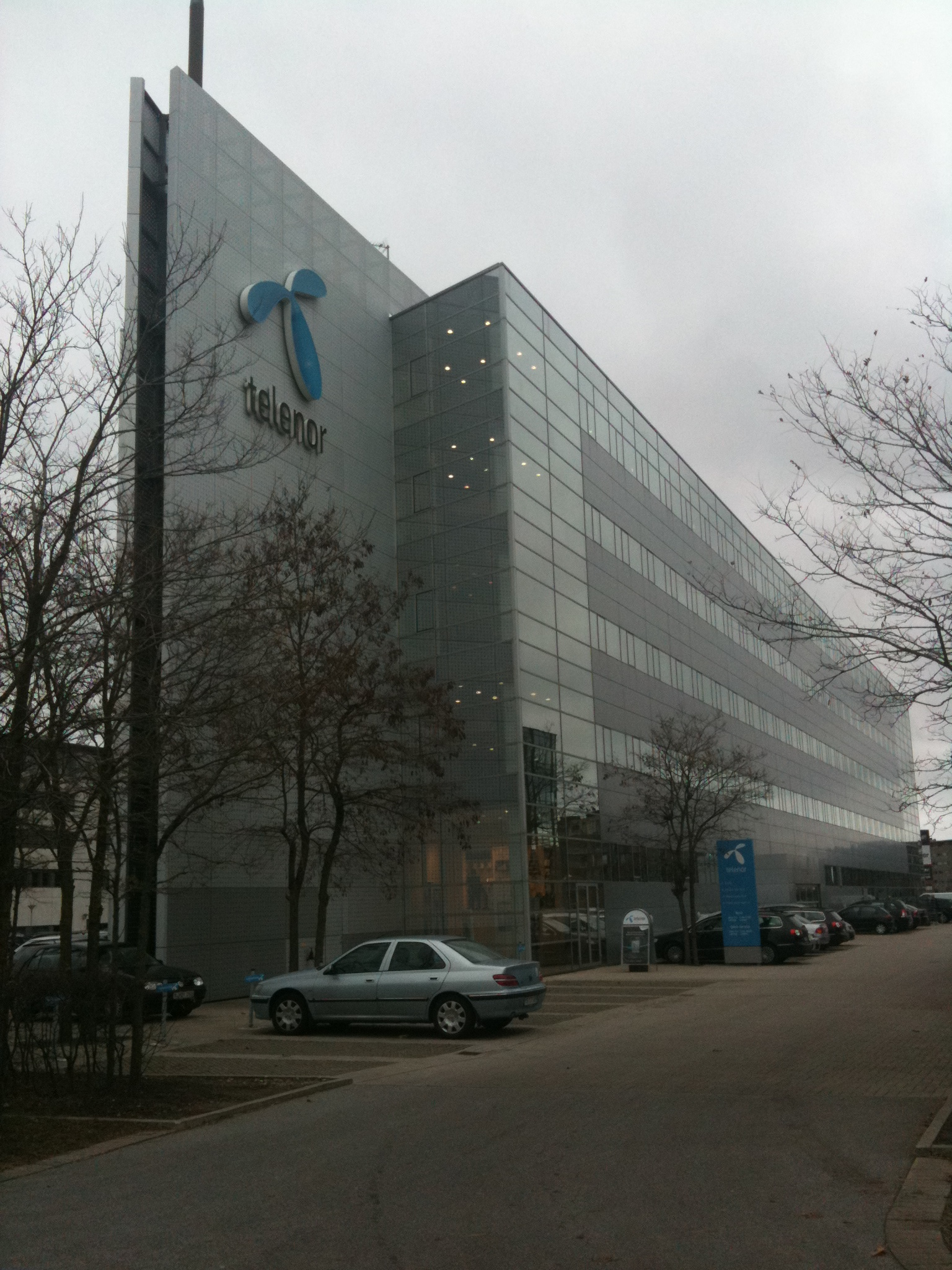 Telenor Denmark, headquarters at Frederikskaj, Copenhagen.